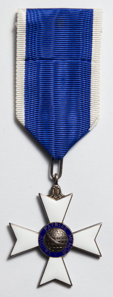 Knight's Cross of the Order of Rio Branco